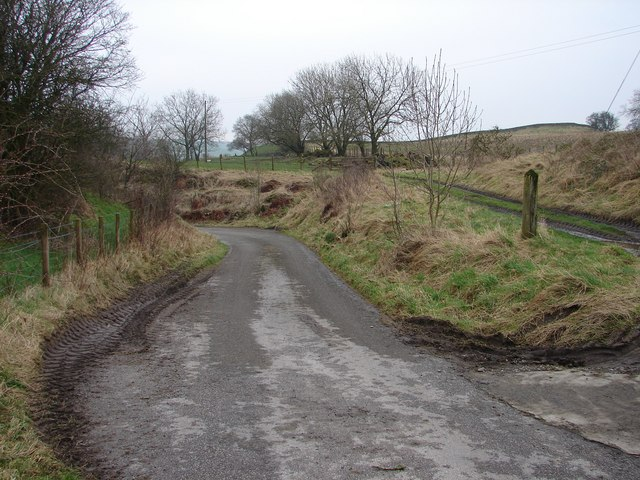 Buittle Station The Meikle Knox-Netheryett lane bears left though an embankment, once an overbridge on the former Dumfries-Stranraer railway (1859-1965). The track on the right leads up to the site of Buittle Station, closed 1894 due to doubling of the line. All that is left is the rubble of the railway cottages - demolished 1960's.